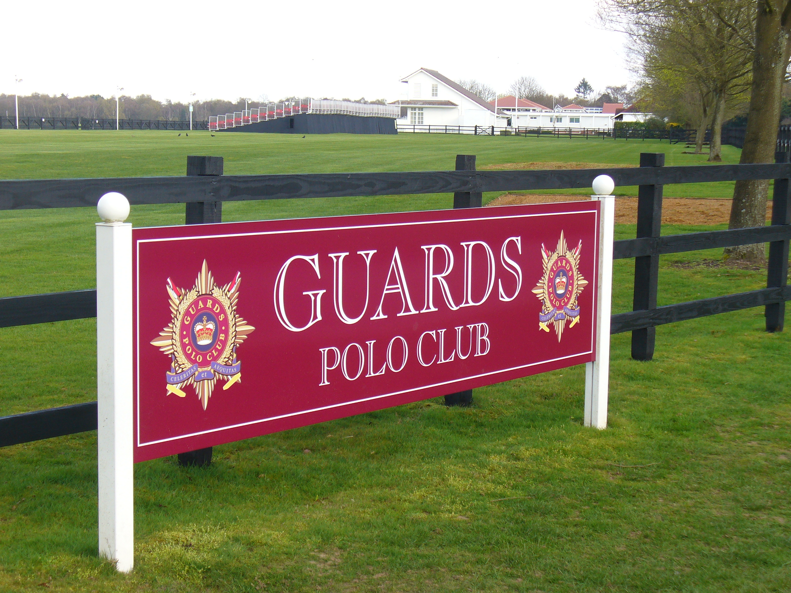 Guards Polo Club Signboard at the south-west corner of Smith's Lawn, the polo park.